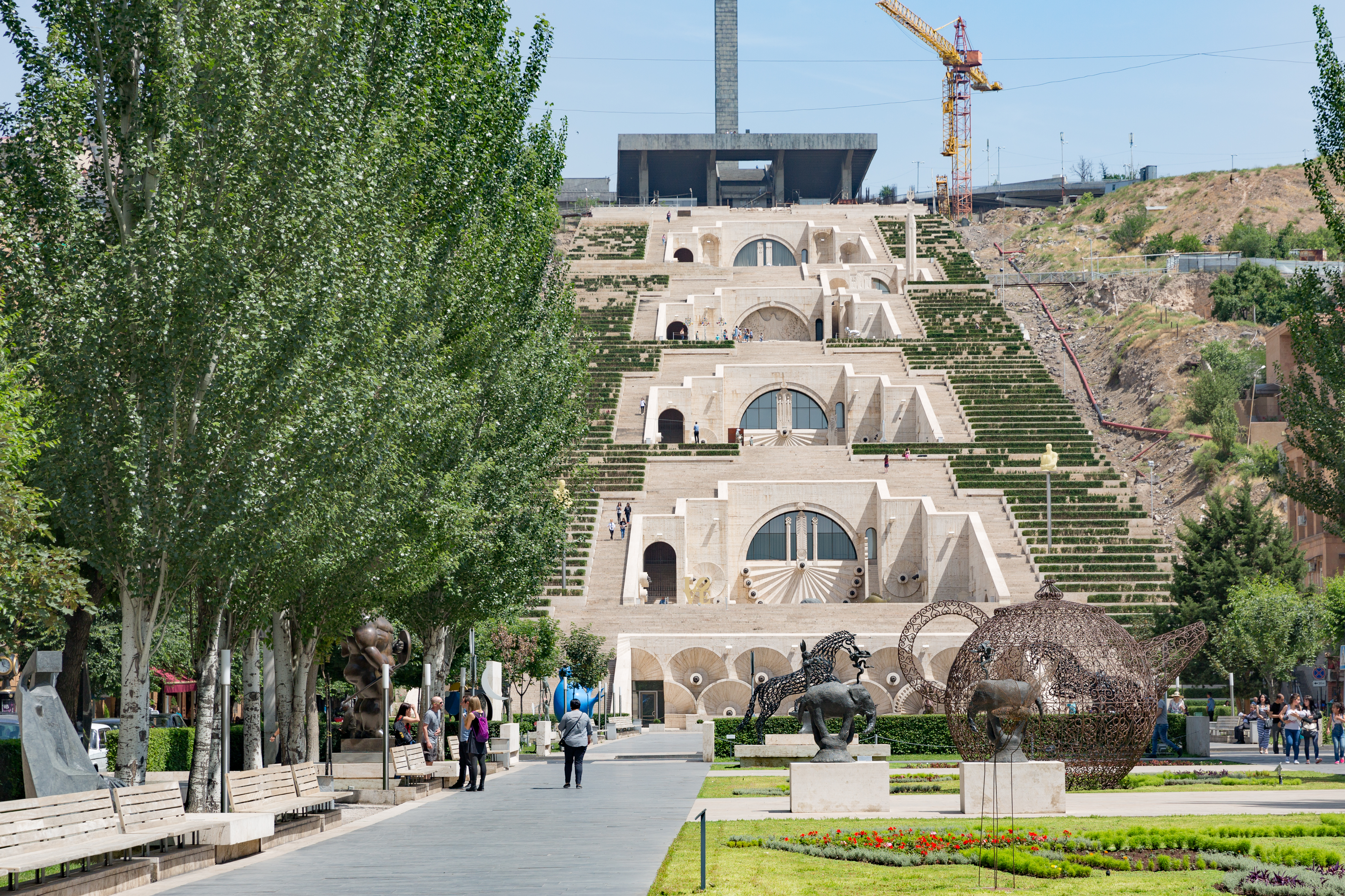 Cascade. Yerevan in 2016